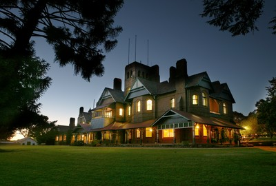 Boolominbah Homestead at night